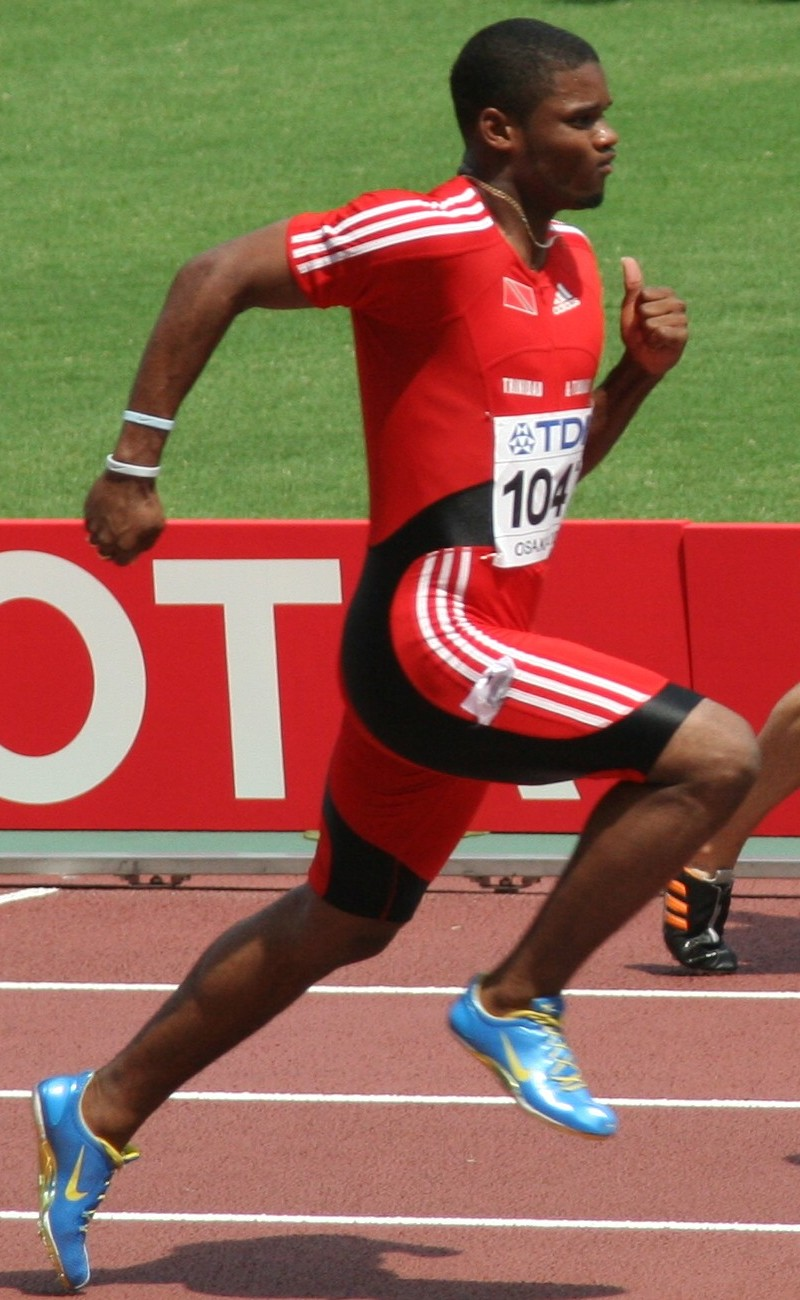 World Athletics Championships 2007 in Osaka - Keston Bledman during the first round heat in the men's 100 meters.